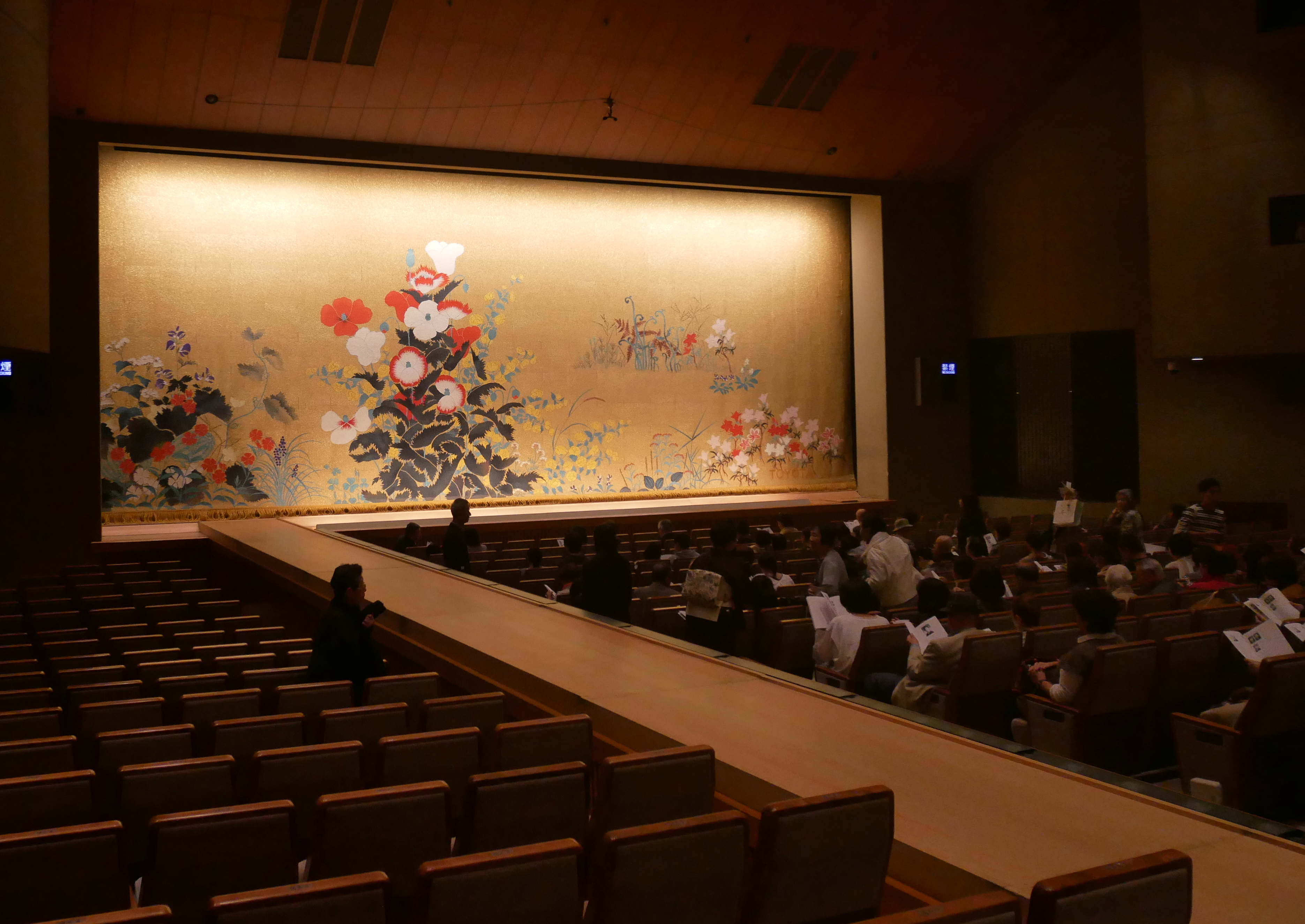 国立劇場の花道 (Kabuki traverse stage [hanamichi] at the National Theatre of Japan)